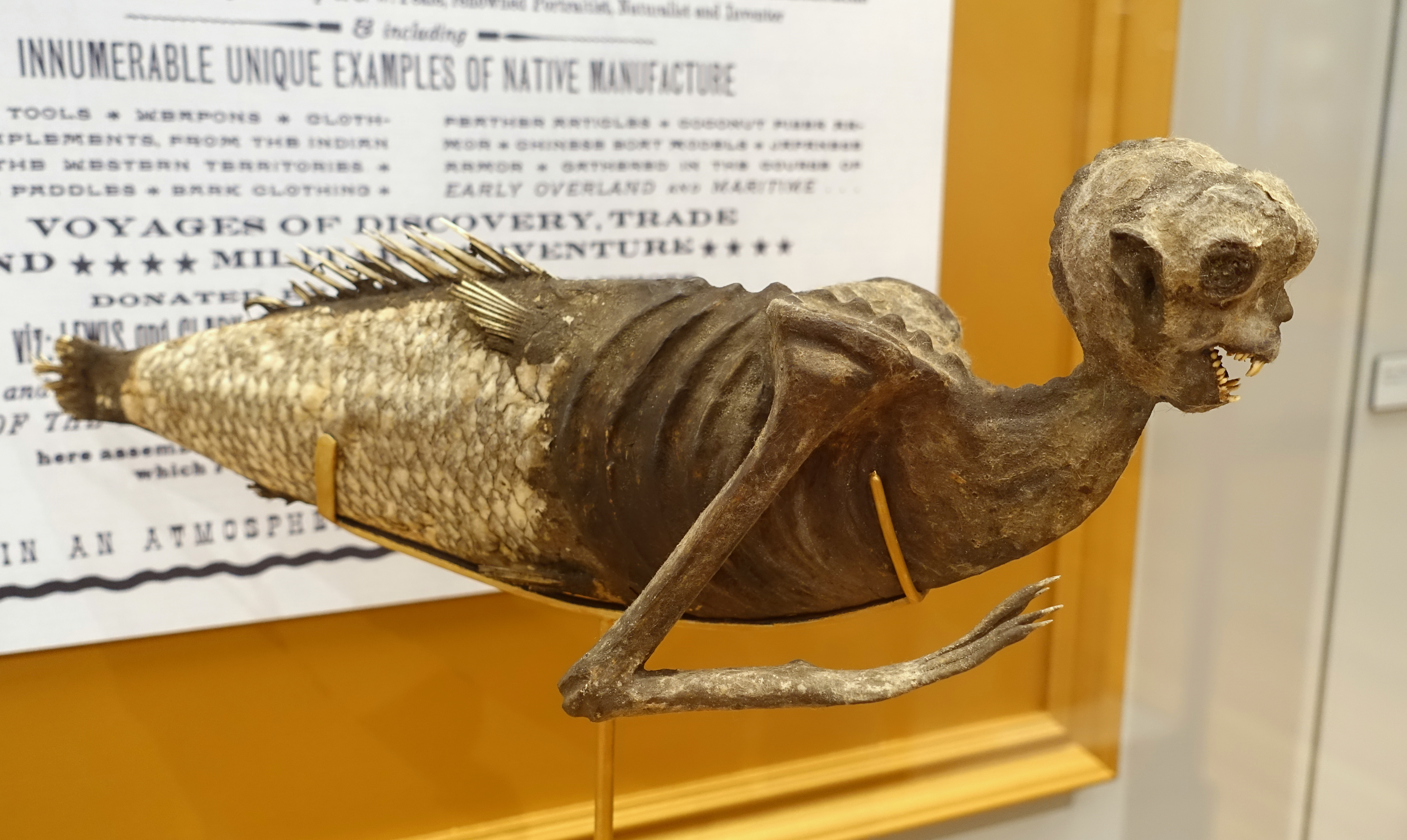 A papier-mâché mermaid from the same Moses Kimball collection that once included the Feejee Mermaid exhibited by P. T. Barnum. The collection met with fire in 1899.[1] Exhibit from the Peabody Museum, Harvard University, Cambridge, Massachusetts, USA. Photography was permitted without restriction; exhibit is old enough so that it is in the public domain.